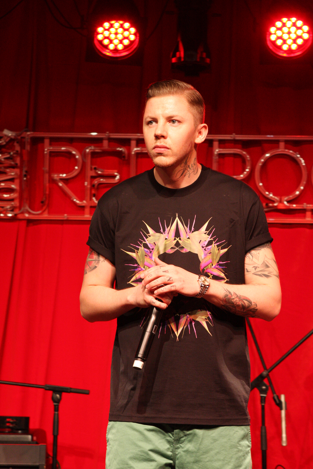 Professor Green performing in Sydney, Australia, on march of 2012